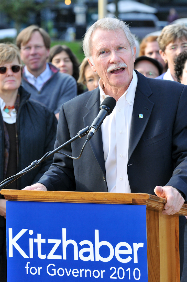 Acceptance speech for Oregon's new Governor, John Kitzhaber